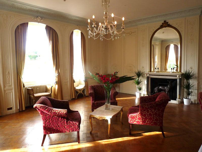 The Empire Room in Addington Palace commonly used as Brides changing room